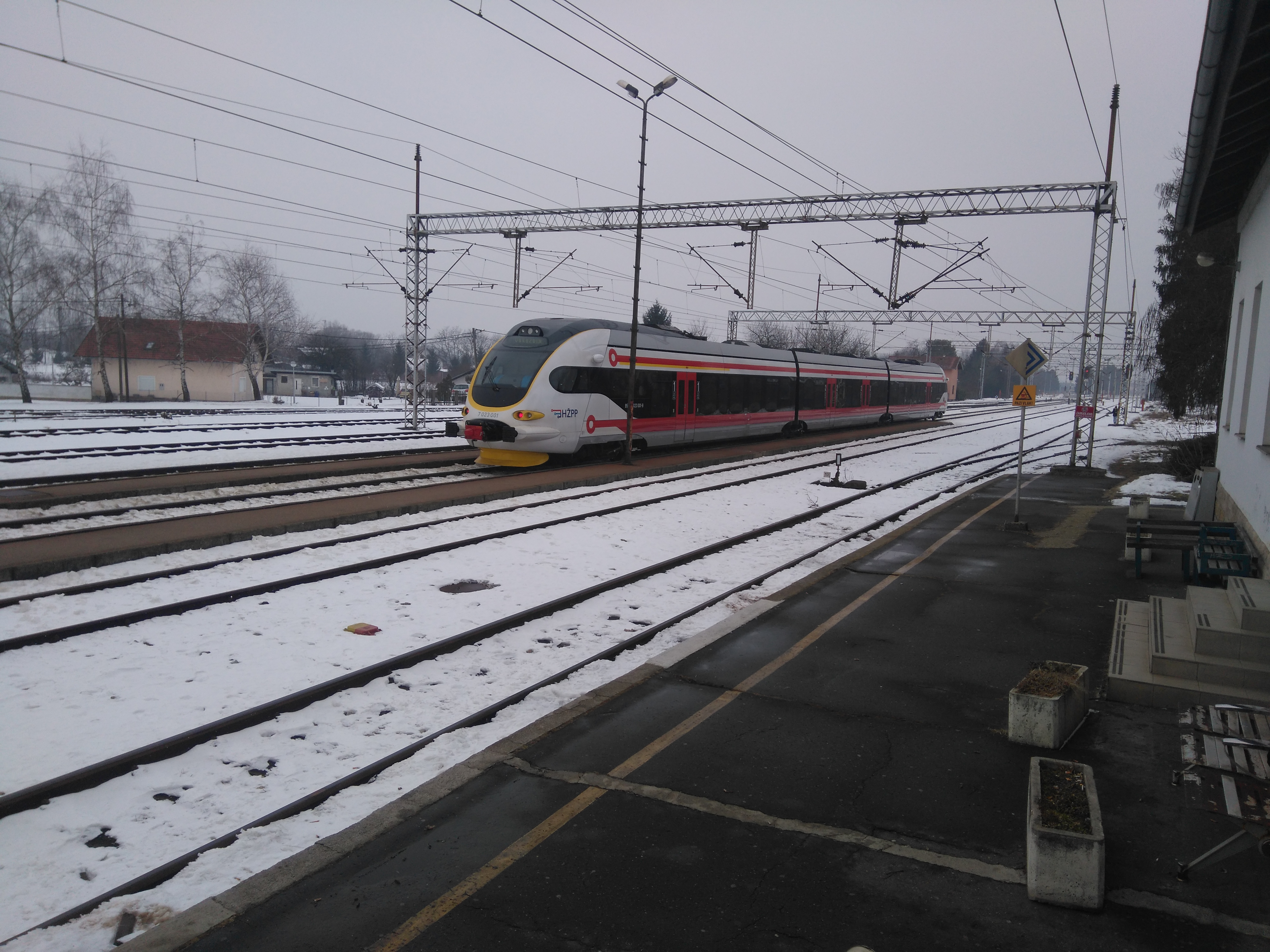 Končar DMU leaving Zaprešić